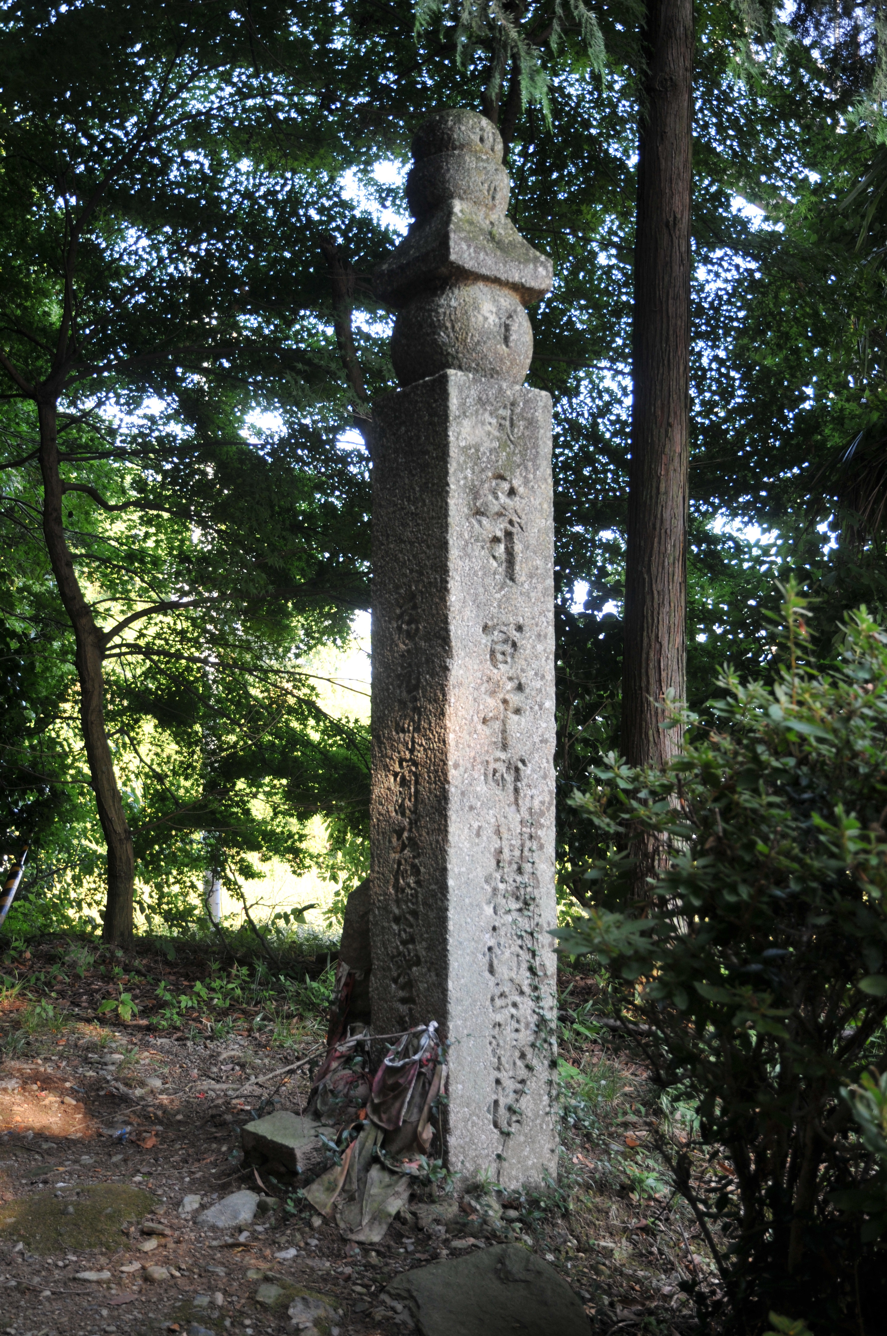 Koyasan Choishi on Jison-in